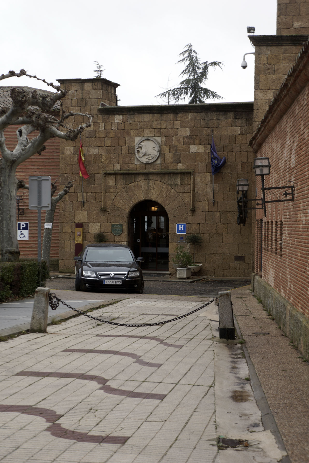 Parador de Benavente (Province of Zamora), located on the site of the old castle of the Count of benavente, of which Caracol Tower has been preserved